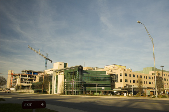 Cabell-Huntington Hospital